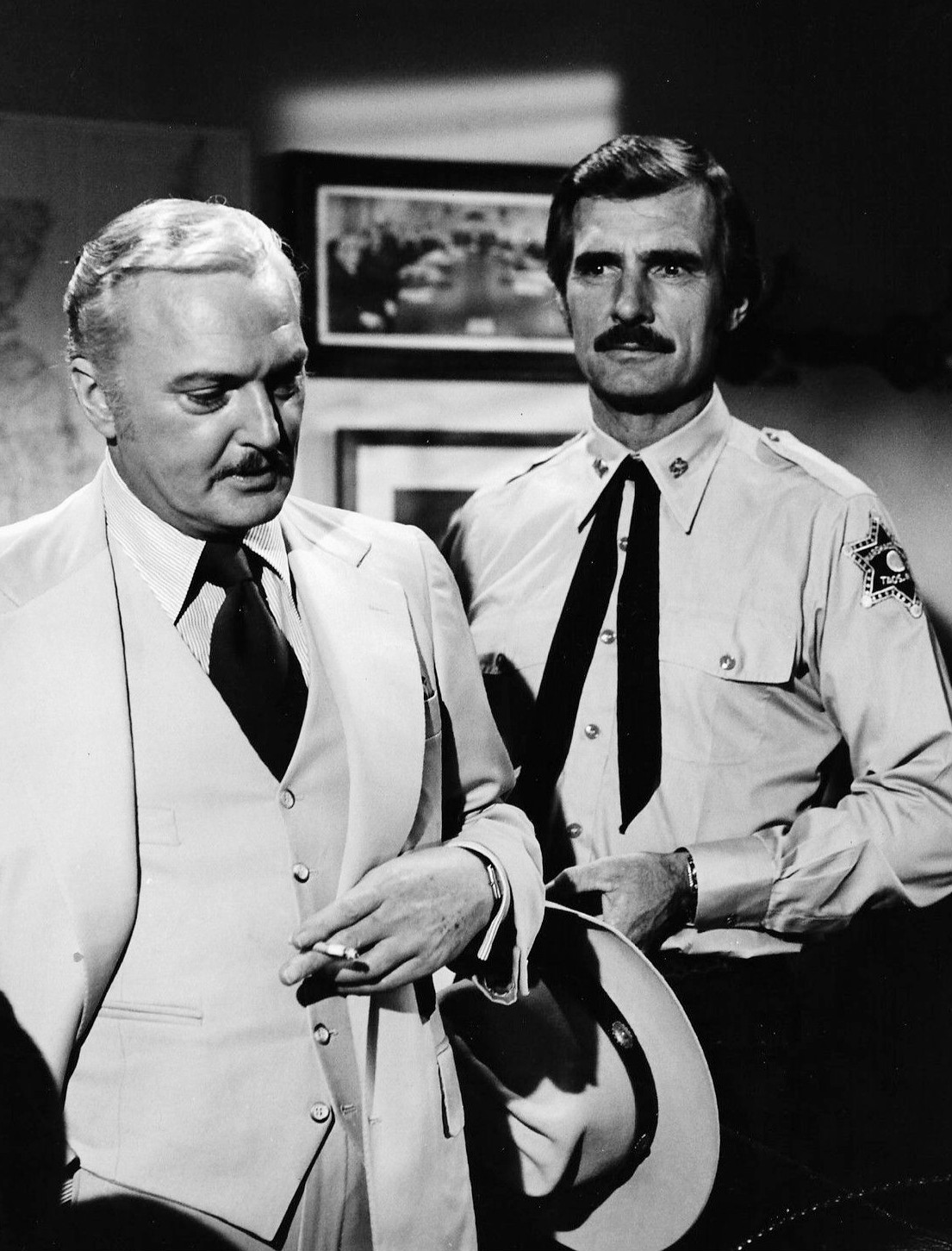 Photo of guest star Jack Cassidy and Dennis Weaver as Sam McCloud from the television series McCloud.